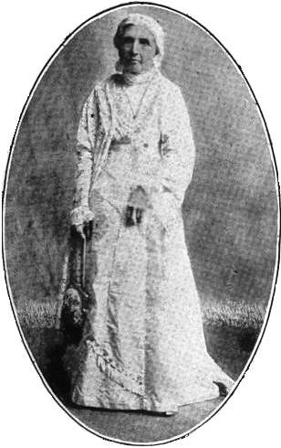 Emmeline Blanche Woodward Harris Whitney Wells, an American journalist, editor, poet, women's rights advocate and diarist. She served as the fifth general president of the Relief Society of The Church of Jesus Christ of Latter-day Saints (LDS Church) from 1910 until her death.